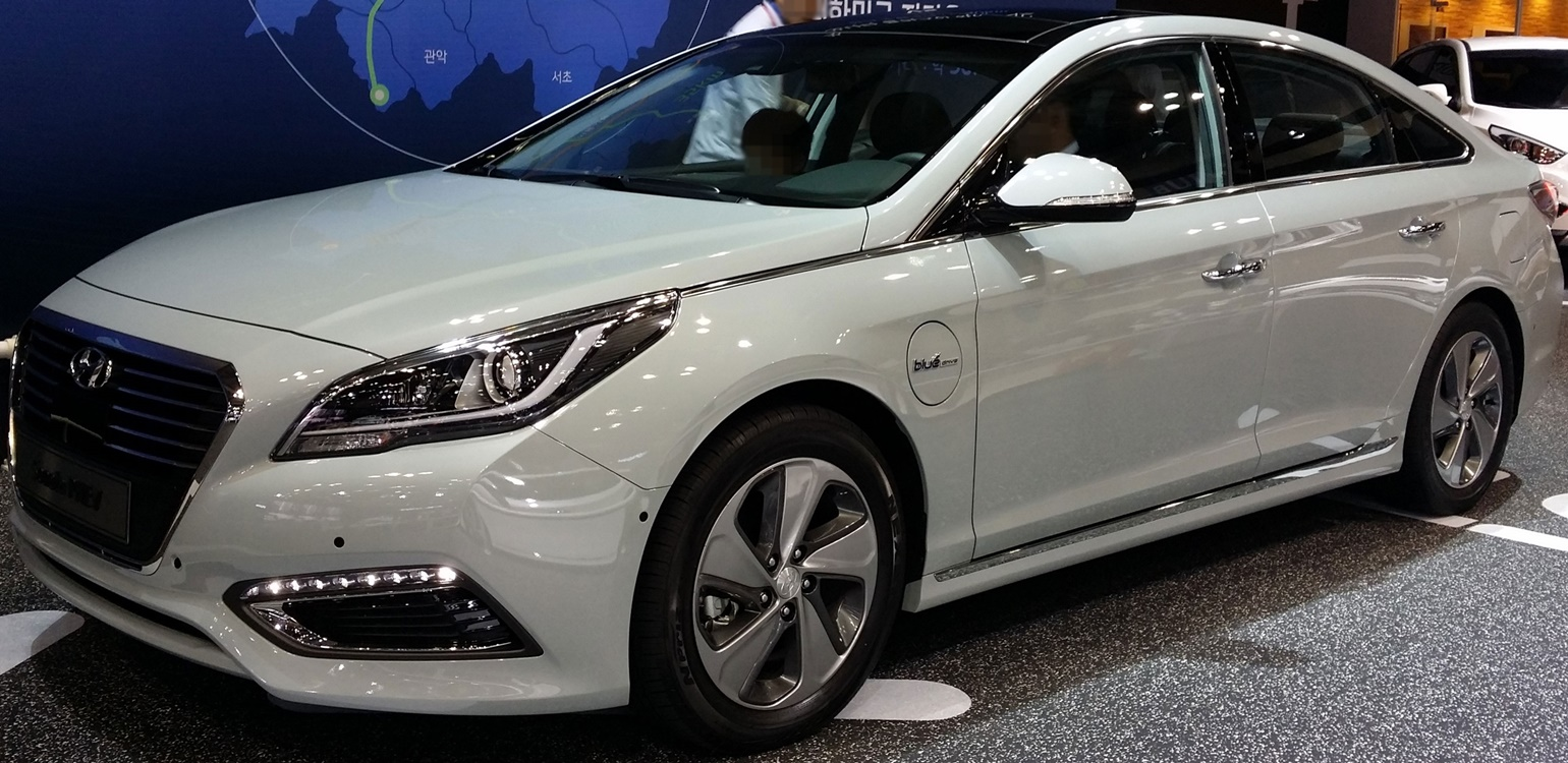 Hyundai Sonata PHEV